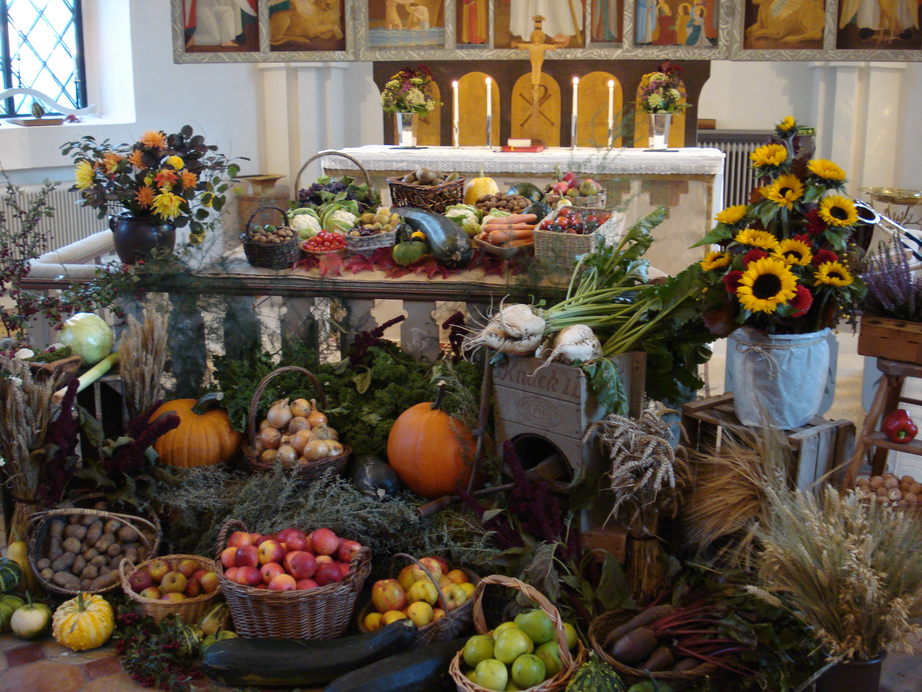 Decoration in Fjärestads kyrka in Sweden at thanksgiving.